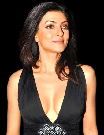 Sushmita Sen arrives at the premiere of Dulha Mil Gaya